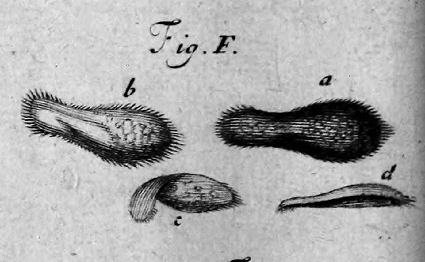 A letter containing the earliest identifiable illustration of a Paramecium was published anonymously in Philosophical Transactions, in 1703. John Dolan has identified the probably author as Charles King of Staffordshire.